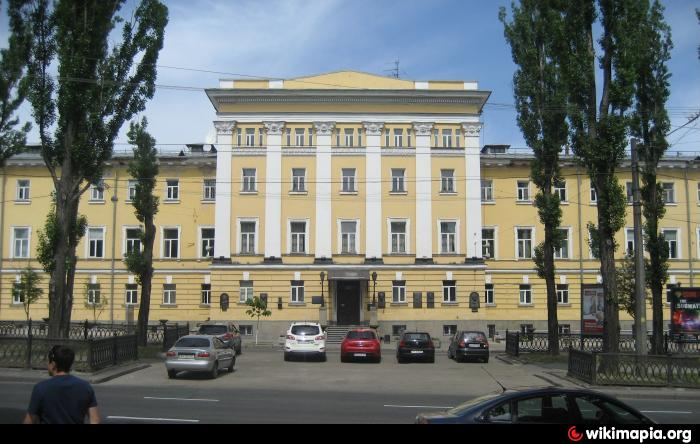 Shevchenko University yellow building